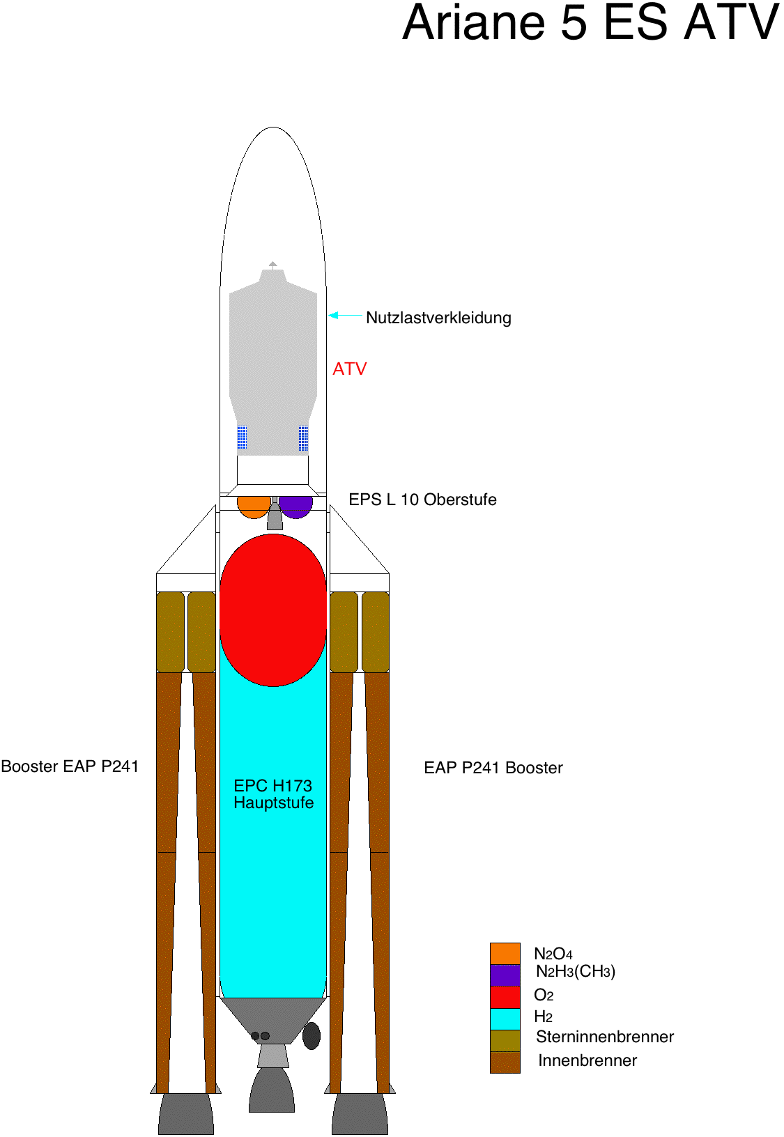 An Ariane 5 ES with ATV under the Payload fairing.